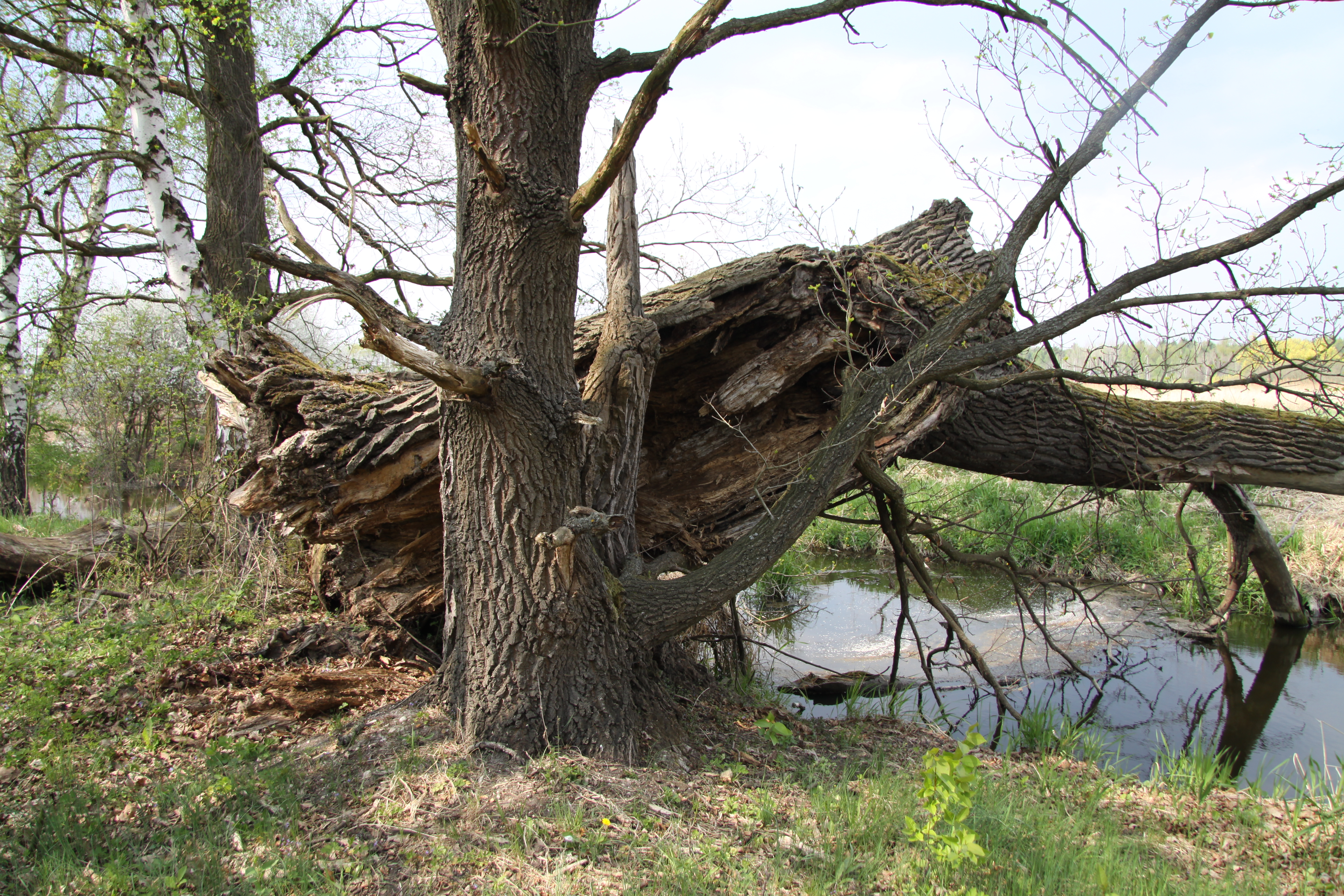 Natural reserve Mokřiny u Vomáčků near Zliv, České Budějovice District, Czech Republic - Google Maps - Google Earth